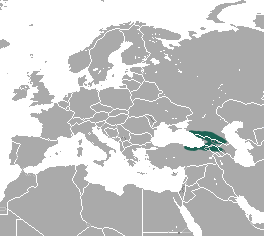 Radde's Shrew (Sorex raddei) range